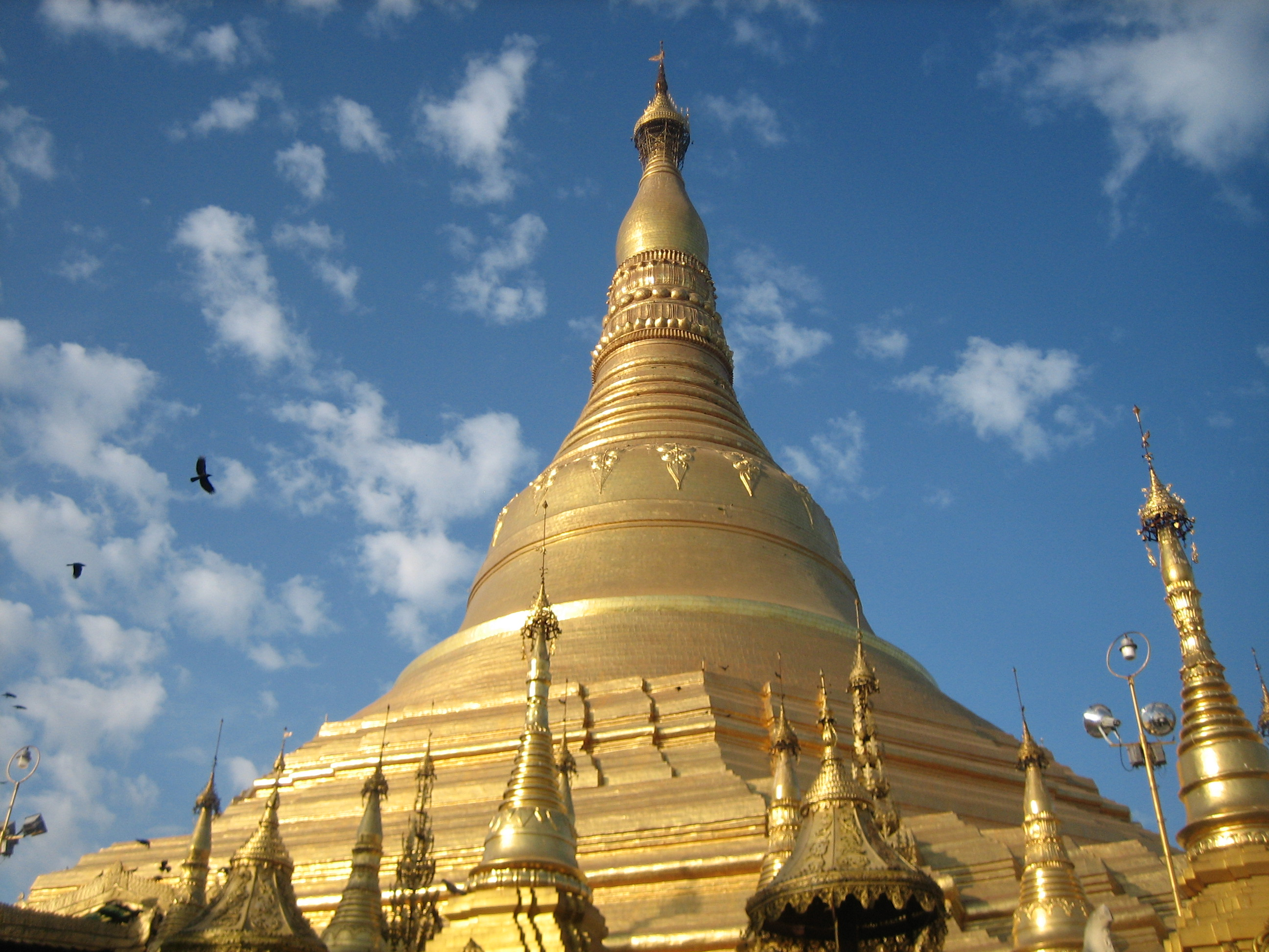 Shwedagon Pagoda, Yangon, Myanmar